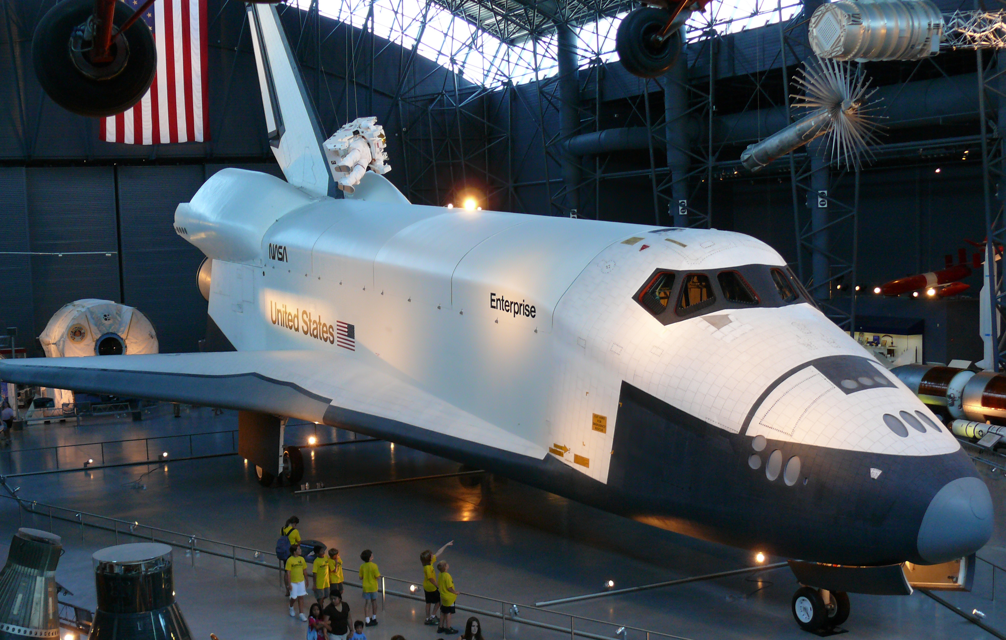 Space Shuttle Enterprise in the collection of the National Air and Space Museum, Steven F. Udvar-Hazy Center, Washington DC The Enterprise (NASA Orbiter Vehicle Designation: OV-101) was the first Space Shuttle built for NASA. It was constructed without engines or a functional heat shield, and was therefore not capable of space operations; its purpose was to perform test flights in the atmosphere.